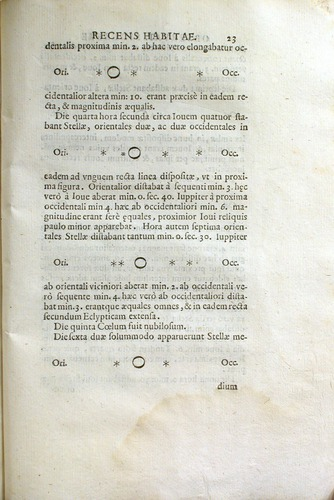 Image of page from Galileo's Sidereus Nuncius. Includes drawings of Jupiter's four moons.